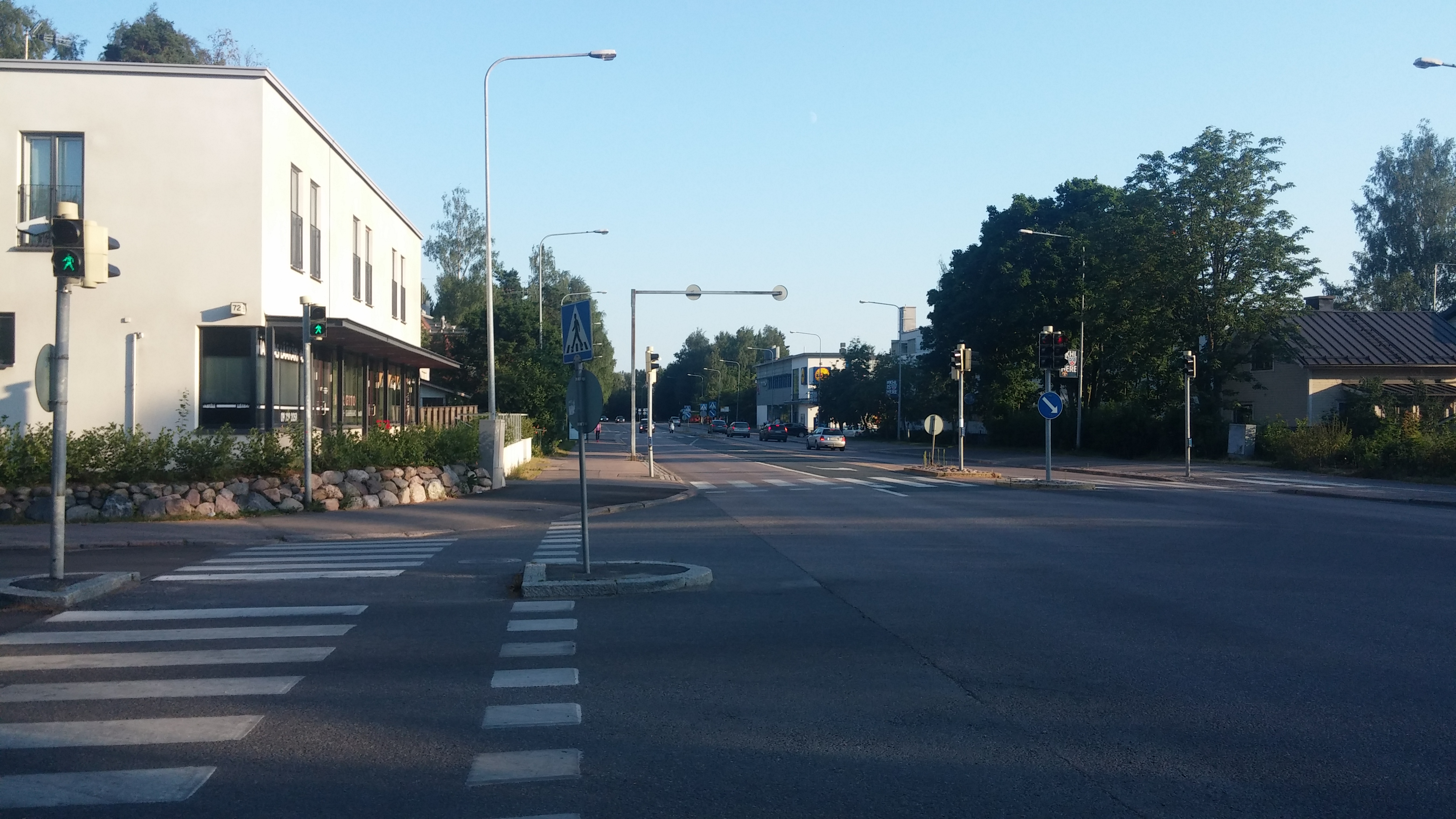 Street in Helsinki